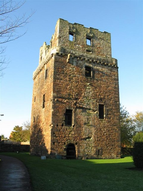 Preston Tower. The six-storey tower was built in the 15th Century as home for the Hamilton family. It was burned by the Earl of Hertford in 1544 and by Cromwell in 1650. They finally moved out in 1663 after another, accidental, fire, to the new Preston House and the recently completed Hamilton House 1030999.